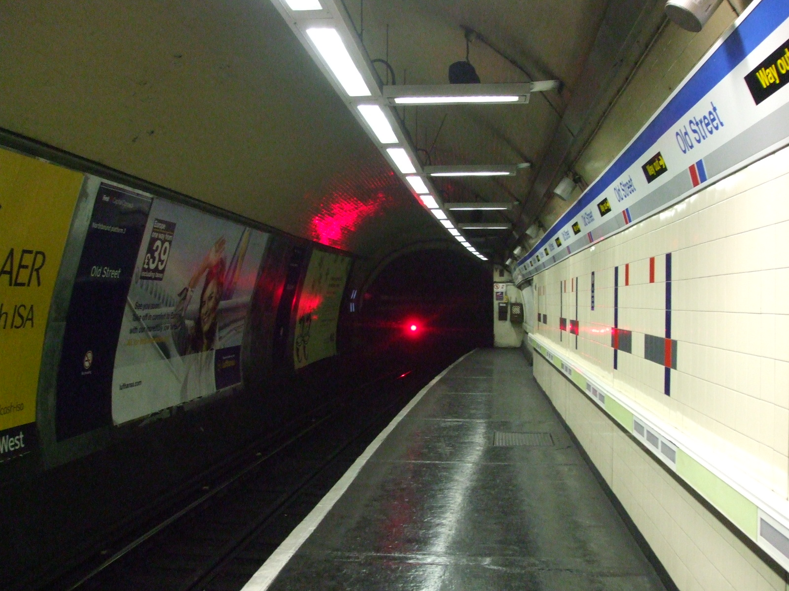 Old Street station Great Northern (First Capital Connect) northbound platform looking north. Ahead can be seen the large 16 ft (mainline) diameter tube tunnel built between Moorgate and Finsbury Park in 1904.